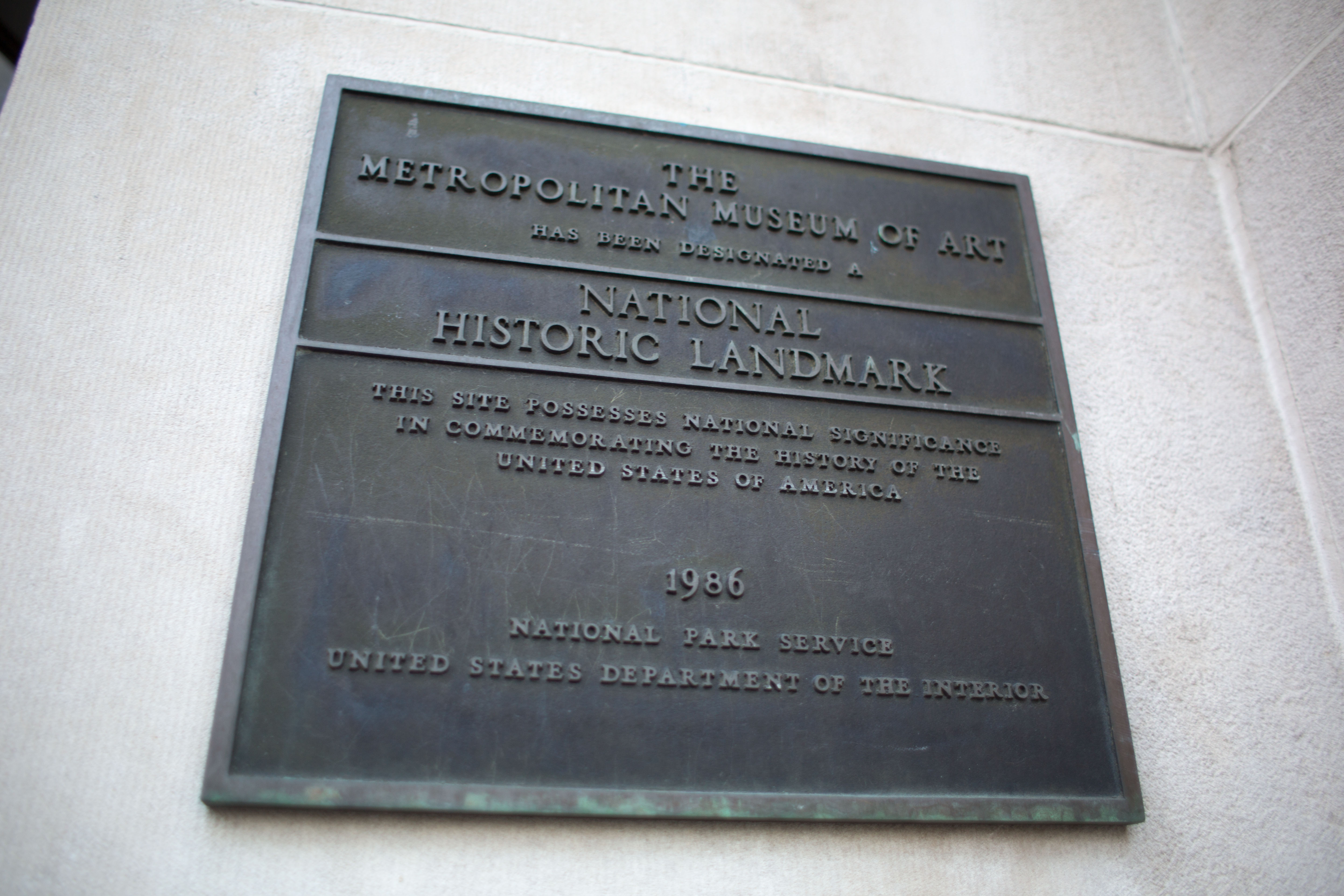 Metropolitan Museum of Art NYC Marker